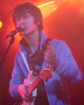 Berlin2006